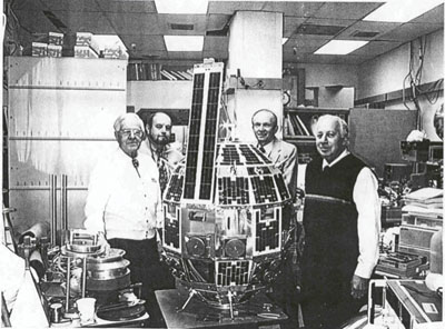 Poppy ELINT Satellite (Type 2)